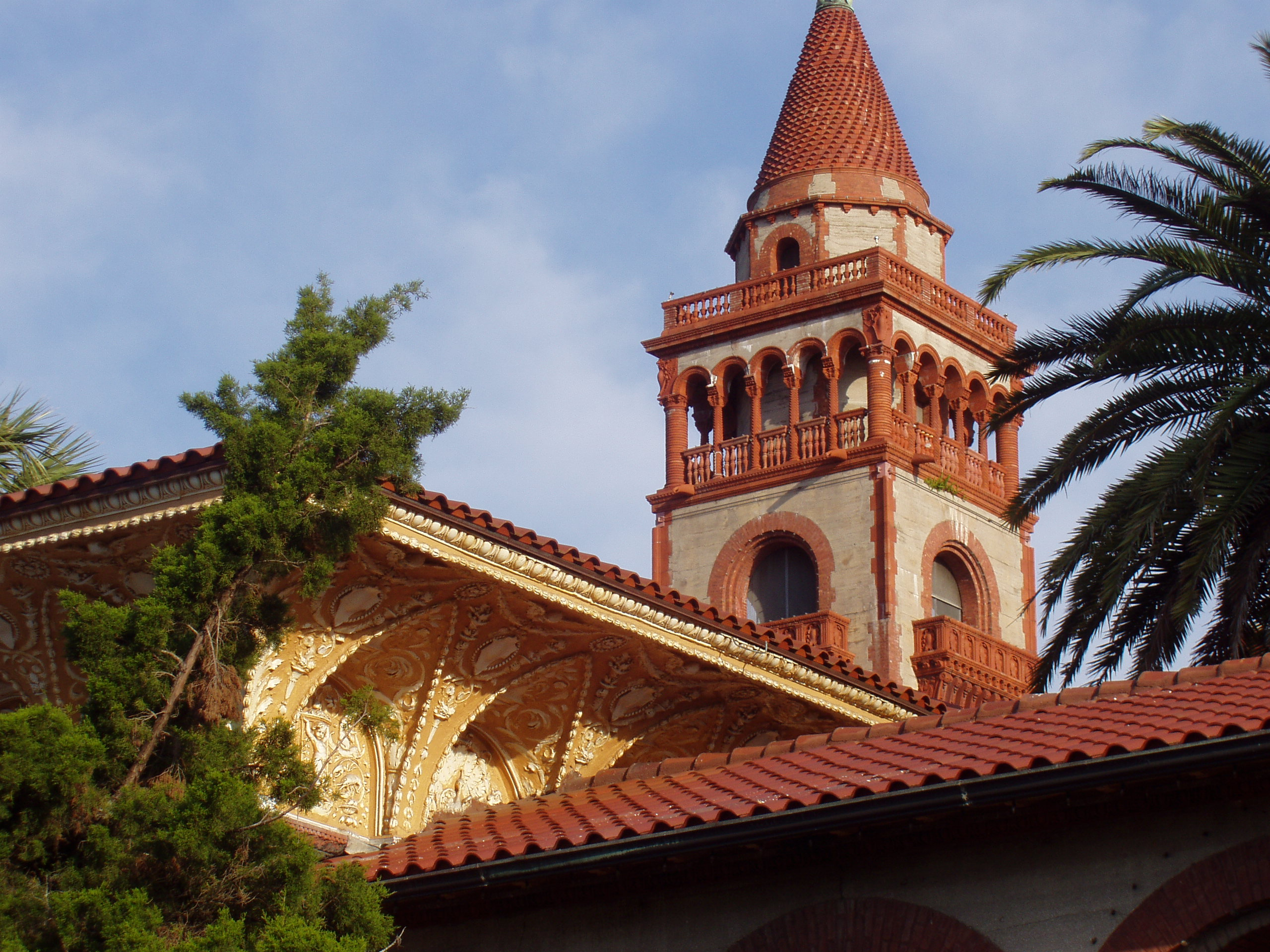 External detail of Flagler College, once the Ponce de Leon Hotel, in St. Augustine, Florida. Photograph taken by me.